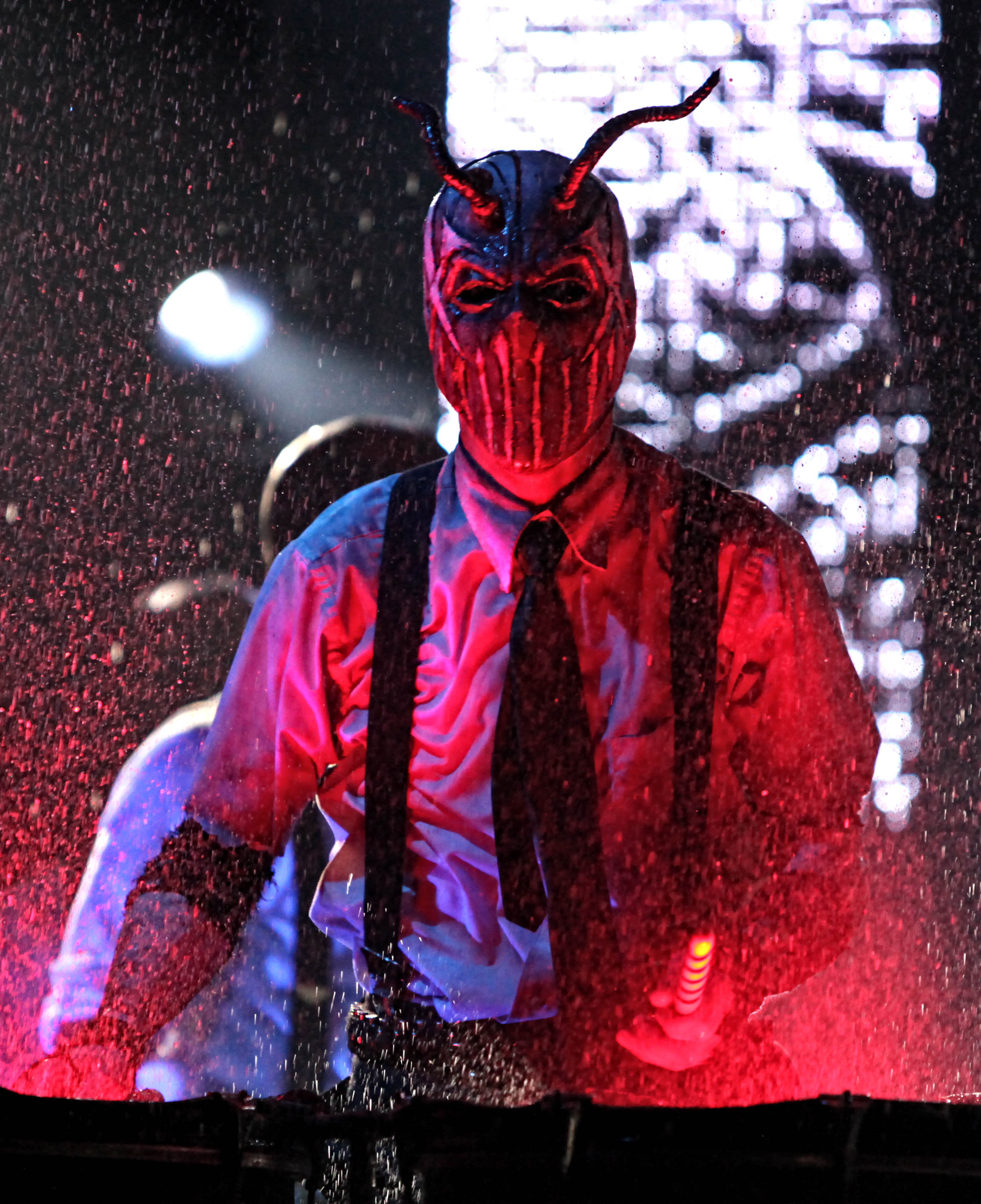 Robert Diablo live with Mushroomhead in Fort Lauderdale